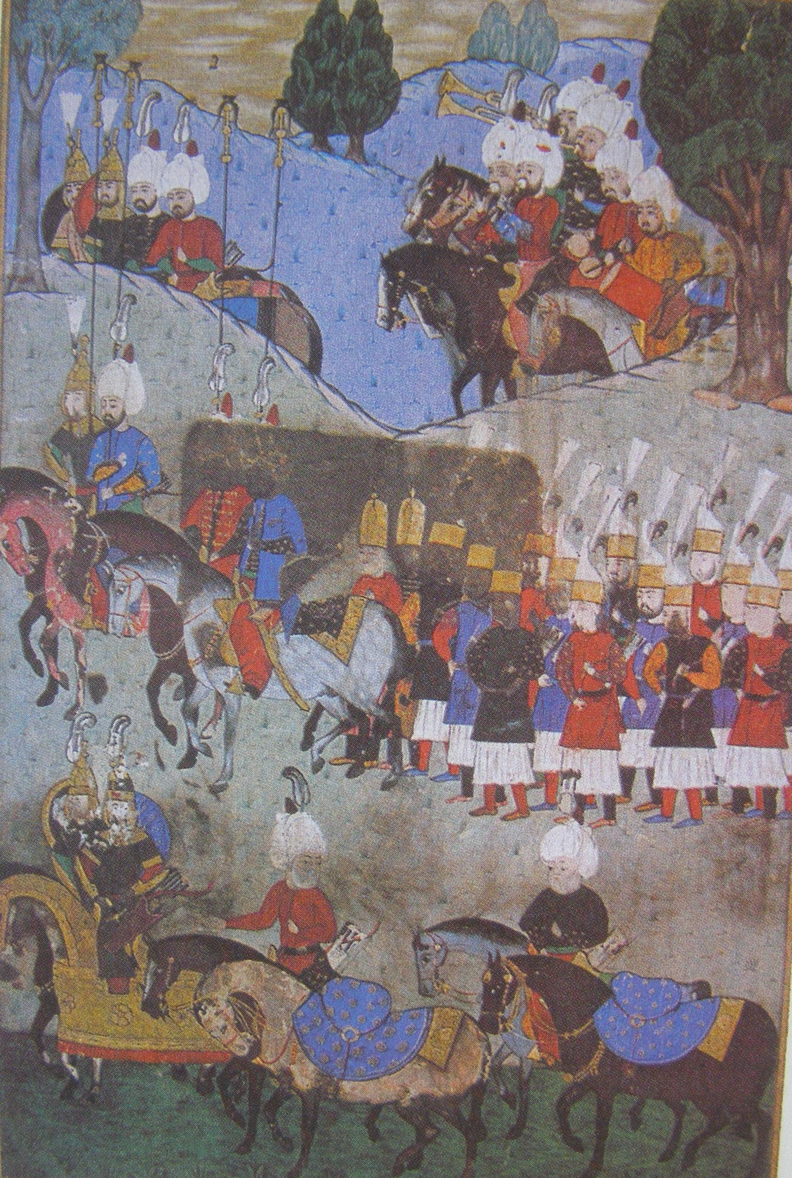 Ottomans make for Beograd